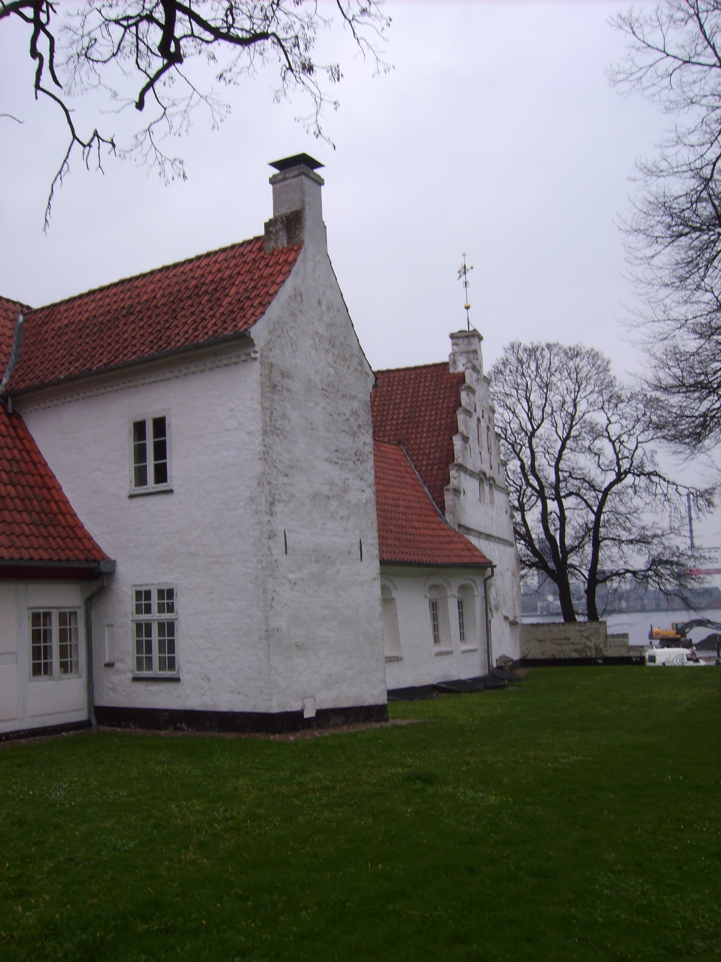 The castle Aalborghus or Aalborghus Slot in Aalborg, Denmark is built 1539-1555.